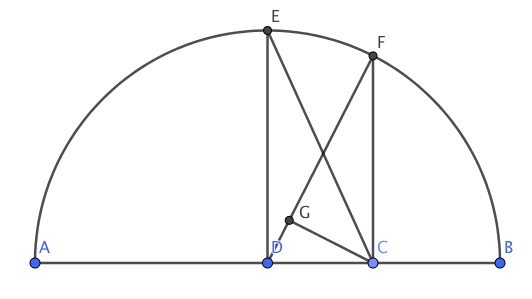 HM-GM-AM-QM inequality n=2 case visualization